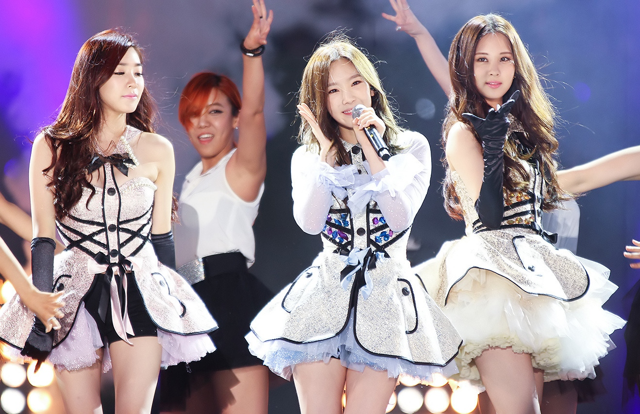 TaeTiSeo at Suncheon Bay Garden Expo International K-POP Concert August 31, 2013.